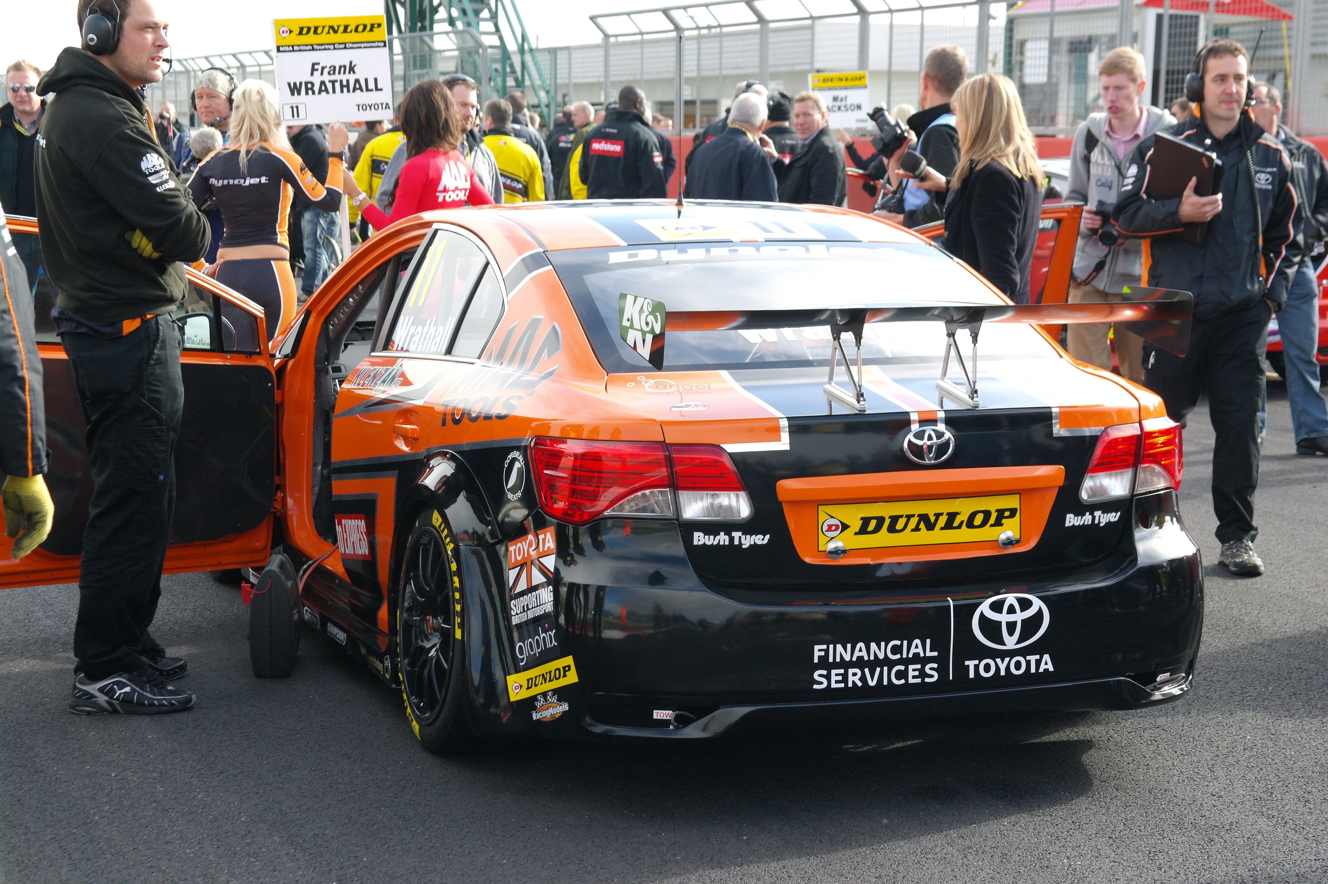 Frank Wrathall on the grid at Silverstone in the 2012 British Touring Car Championship driving for Dynojet.